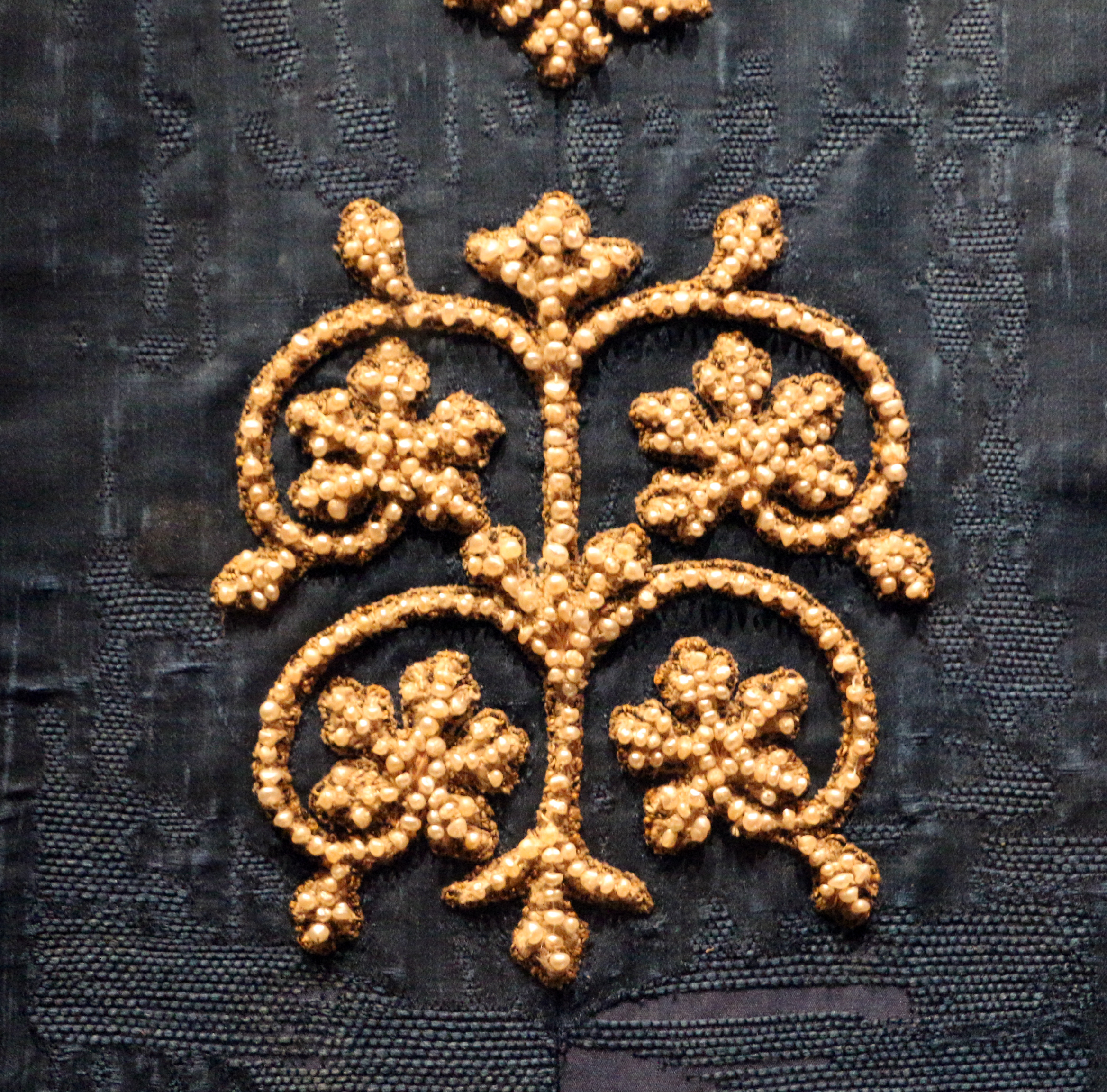 Domschatz, Aachen